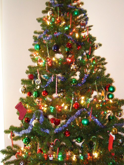 Artificial Christmas Tree